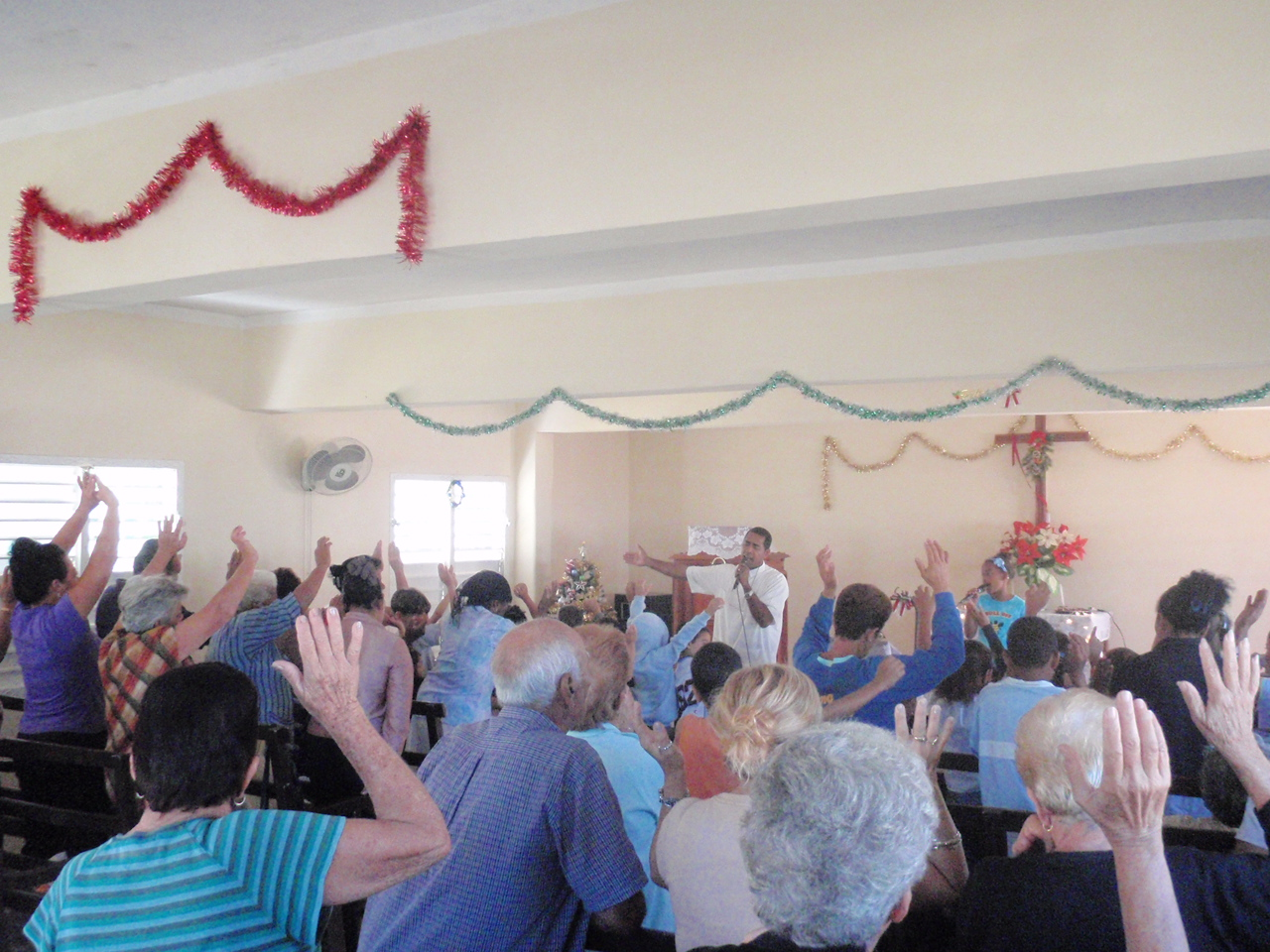 Ministrando a la iglesia en el Caribe